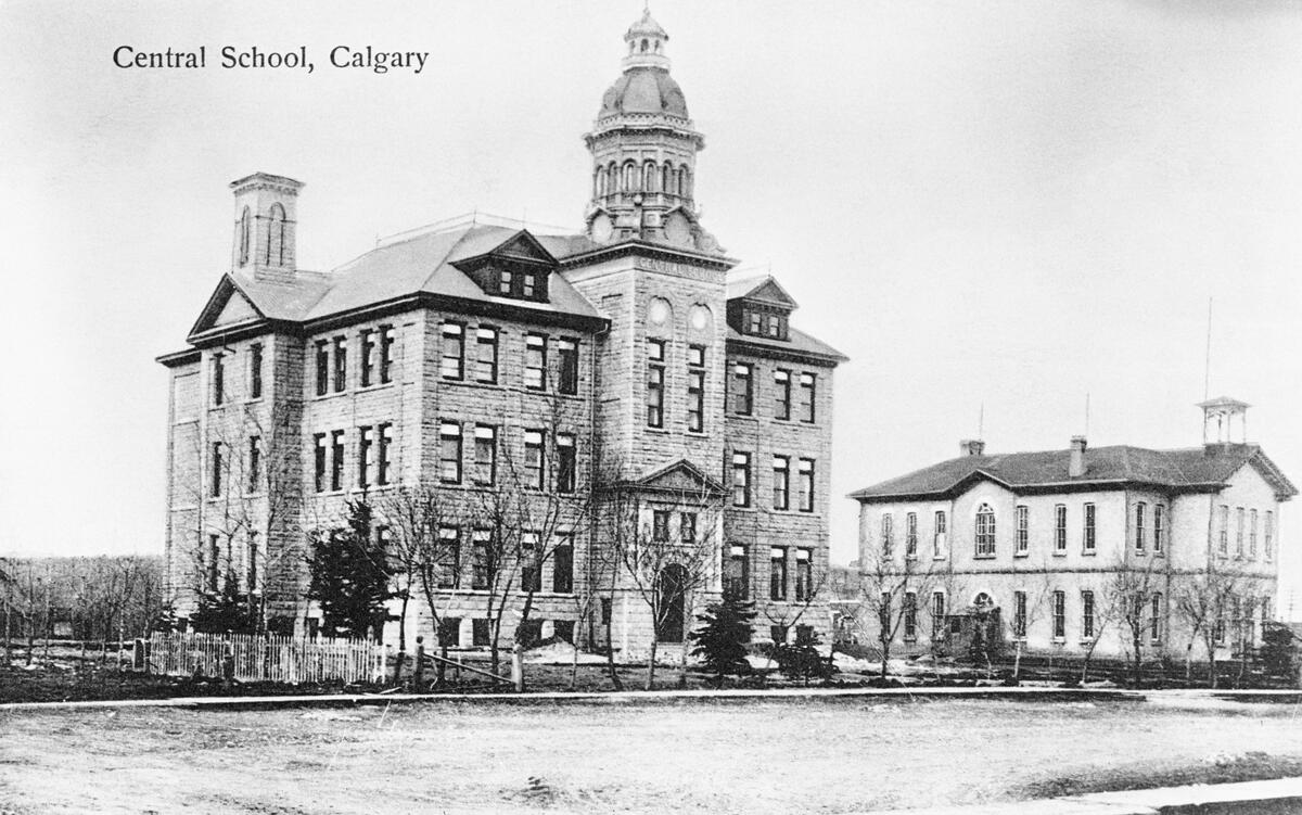 Central School Calgary